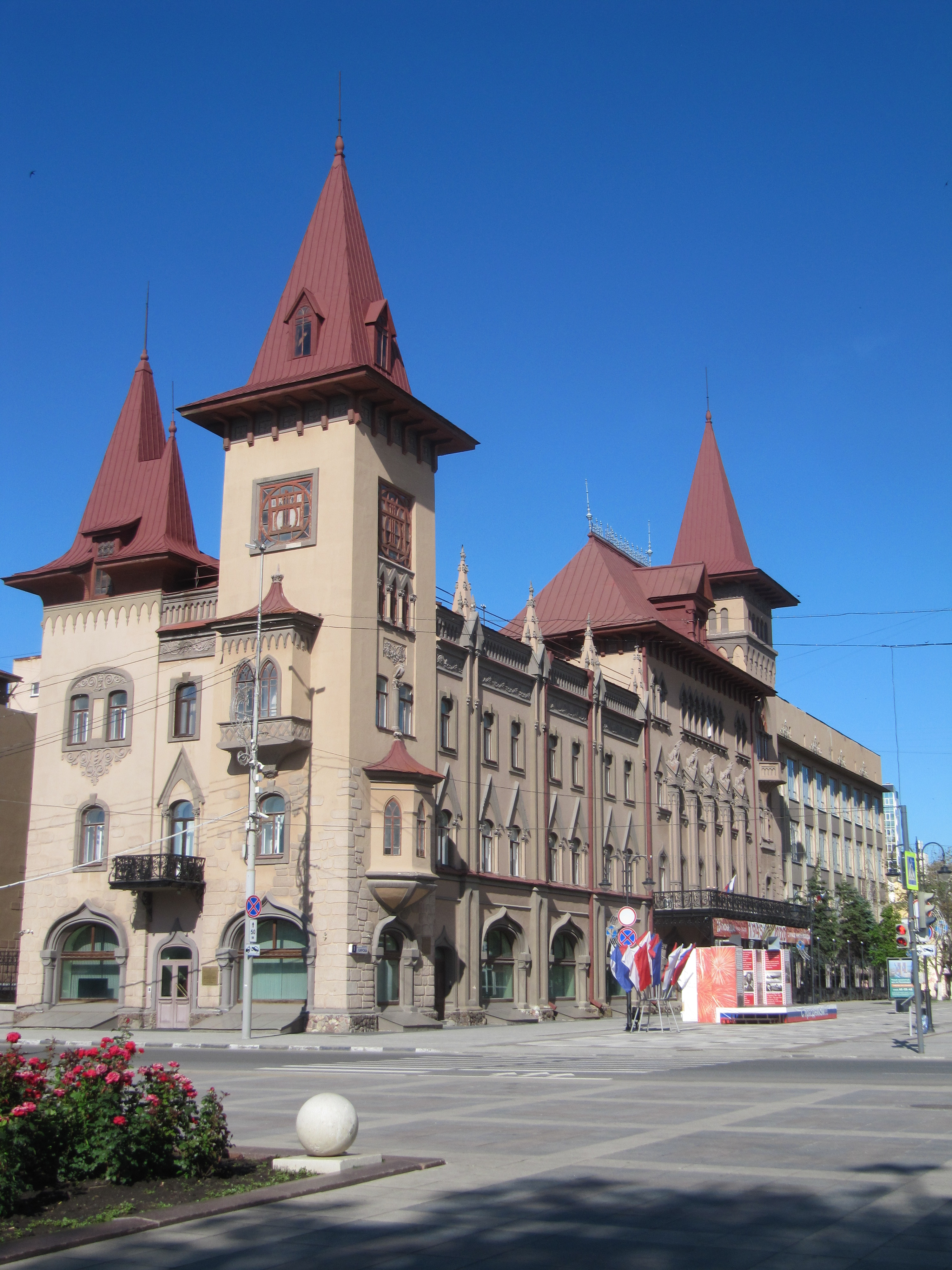 Saratov State Conservatory named L. V. Sobinov